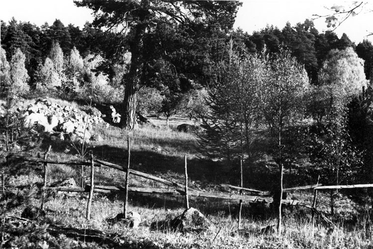 Hjulstaskolan. The place where the first school of Järfälla was situated. The school was in use between 1810-1845. Photography from 1951. The photographer was Artur Johlin. Picture no 01149.